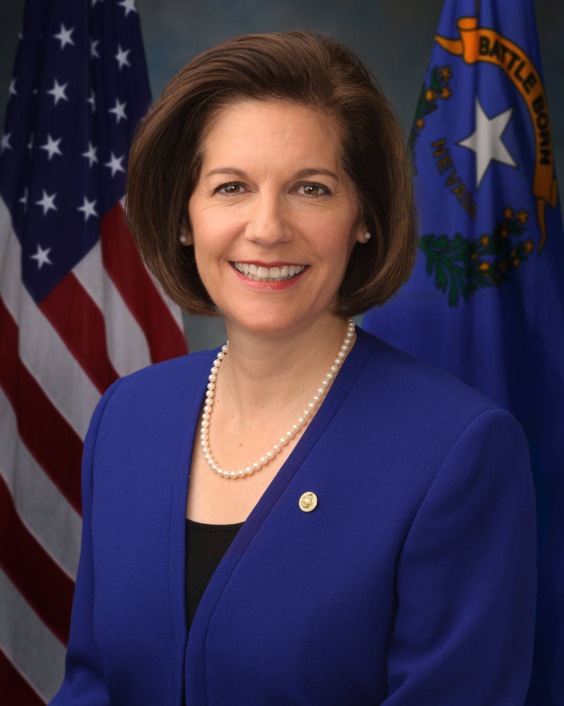 Official portrait of Senator Catherine Cortez Masto (D-Nevada)